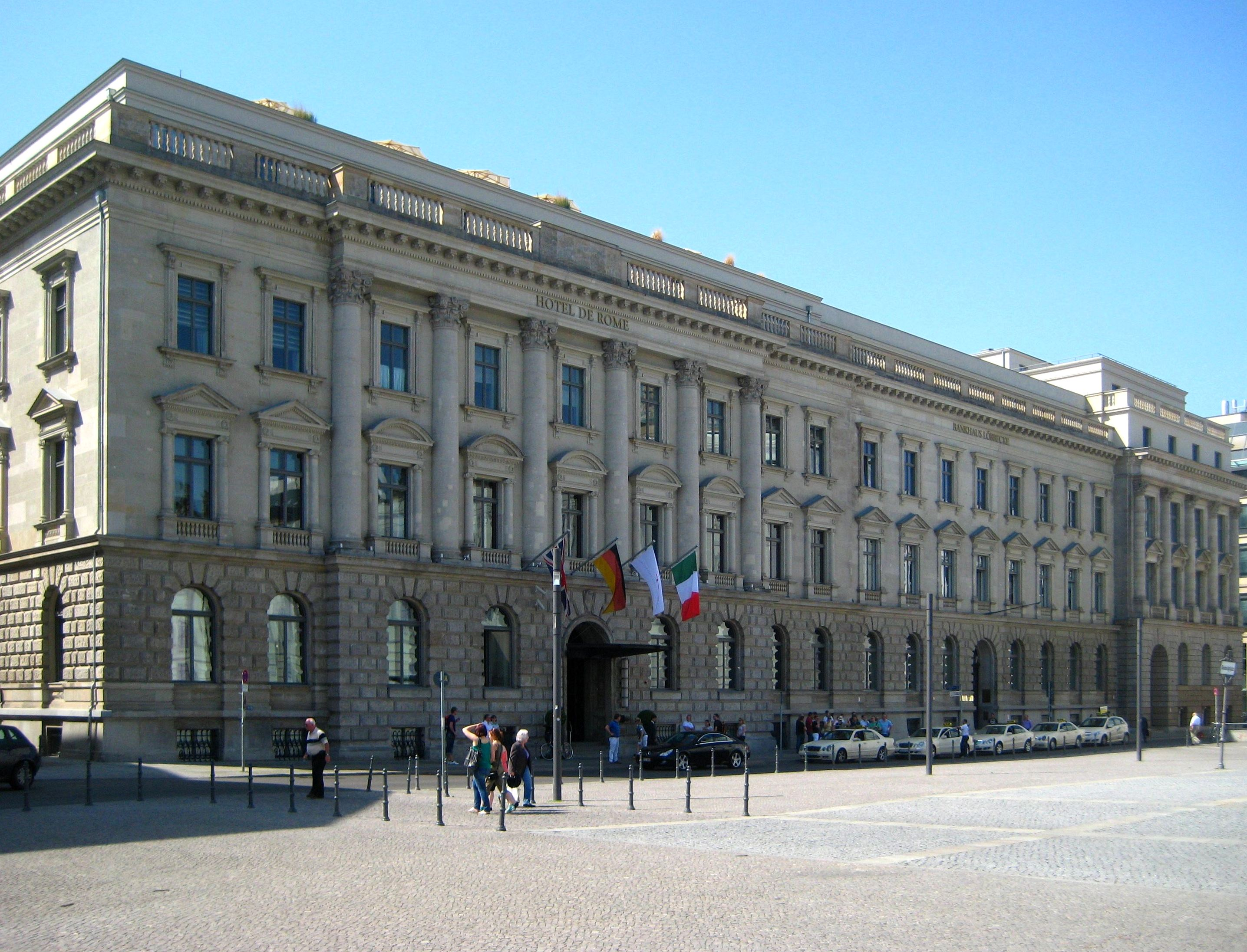 Former main building of the Dresdner Bank at Bebelplatz in Berlin; built or rebuilt by architects Ludwig Heim (1887-1889), Ludwig Ernst Emil Hoffmann (1923) and Richard Paulick (1952). The landmarked building is now seat of the Hotel de Rome, Berlin.